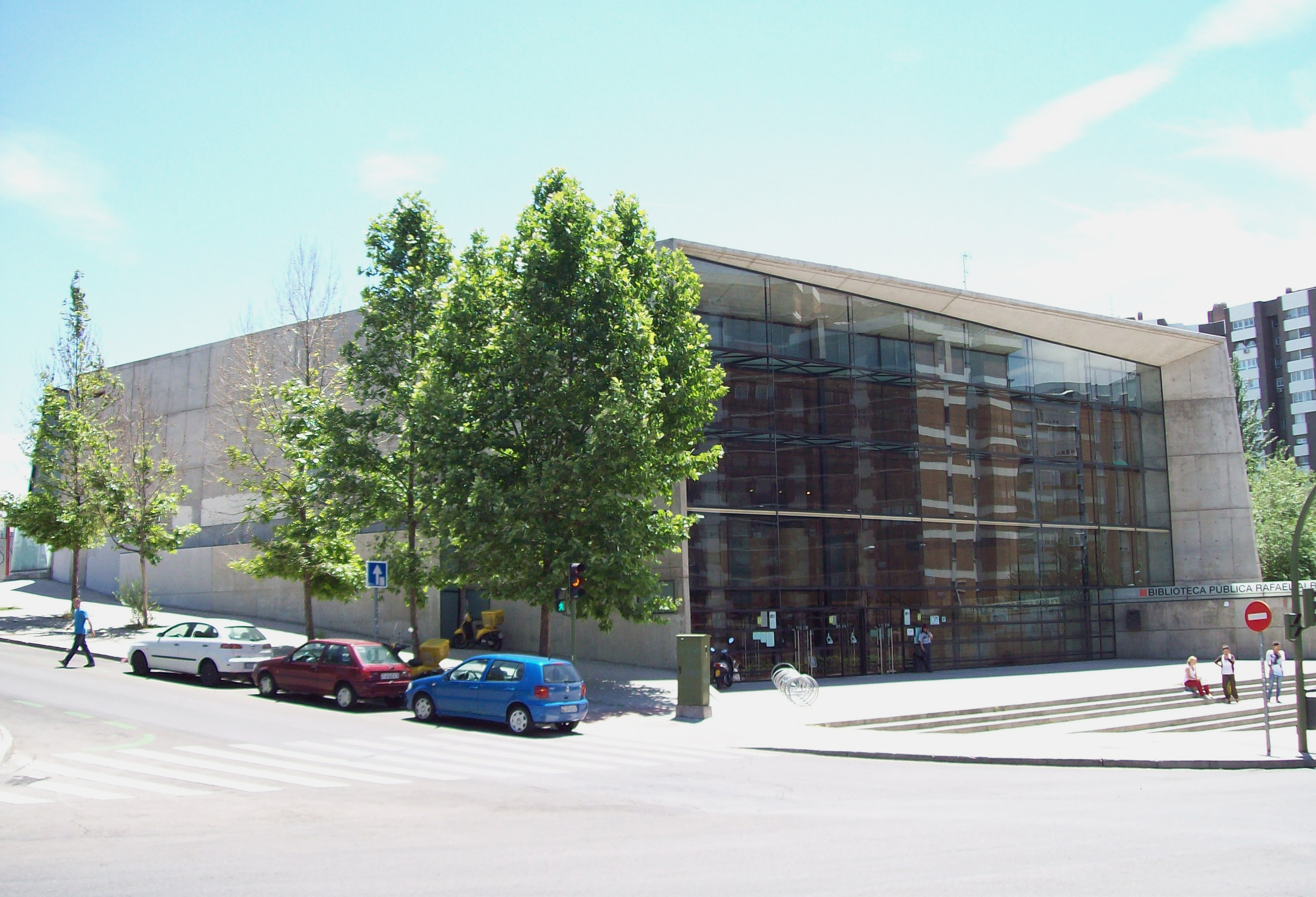 View, from the north-west angle, of Rafael Alberti Public Library in Madrid (Spain).